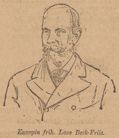 Engraving of the Swedish nobleman Lave Beck-Friis (1857-1931), by an anonymous artist. Published in Svenska Dagbladet 1902-03-30 (84), p. 5.